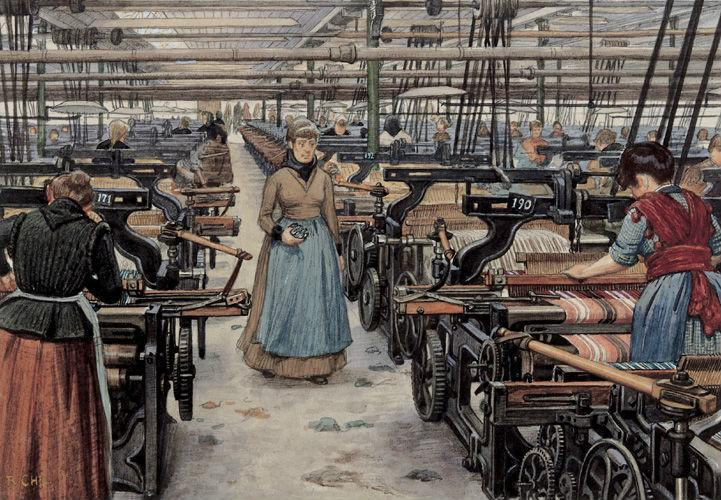 Interior of Rubens Klædefabrik on Rolighedsvej in Frederiksberg, Denmark. Watercolour by Rasmus Christiansen.